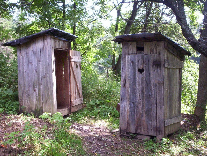 Outhouses in student's tourist tent base in Jawornik, Beskid Niski, Poland.